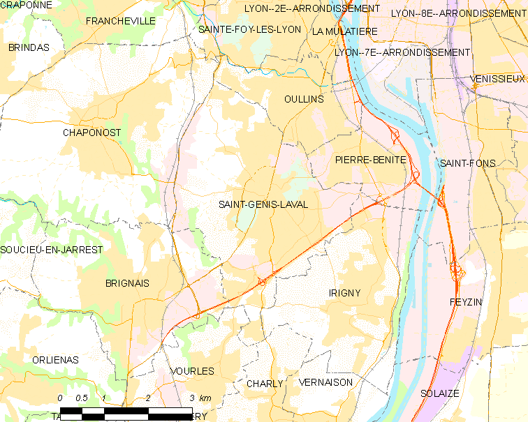 Map of French municipality